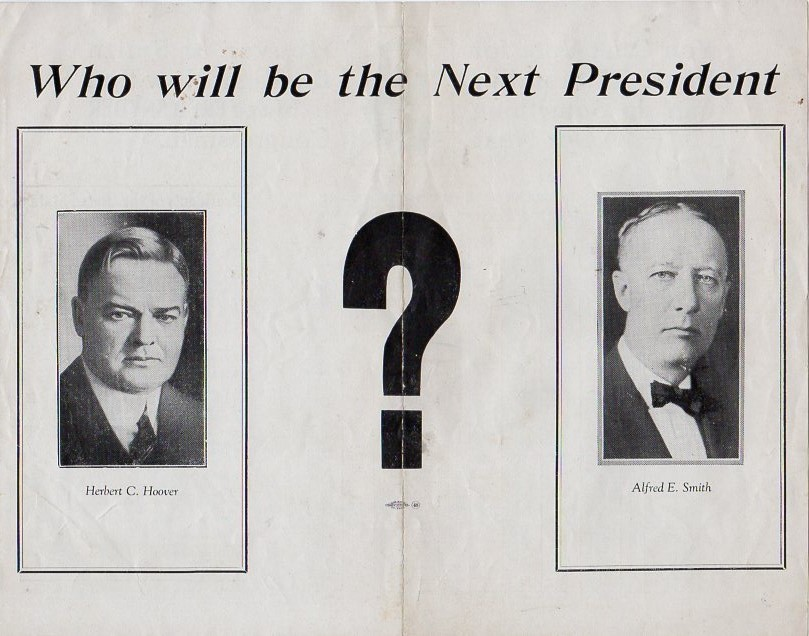 Hoover vs. Smith coattals flyer